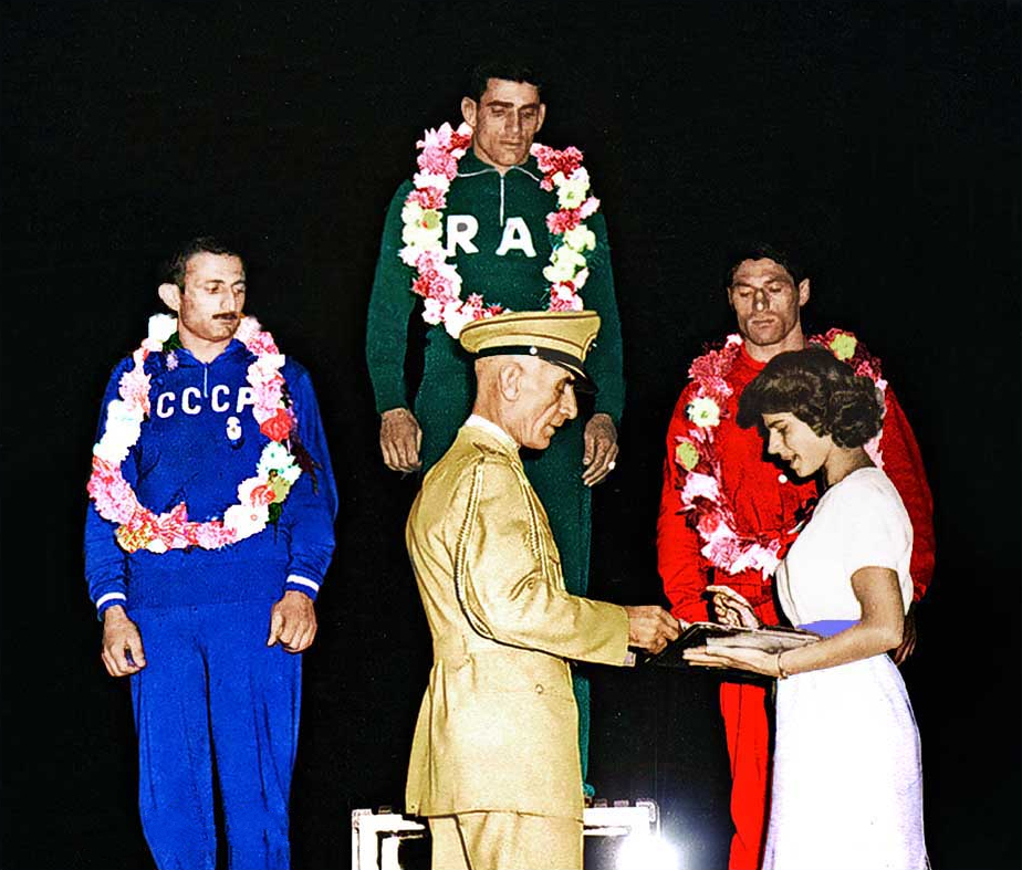 Freestyle Wrestling at the 1959 World Wrestling Championships, 73 kg podium